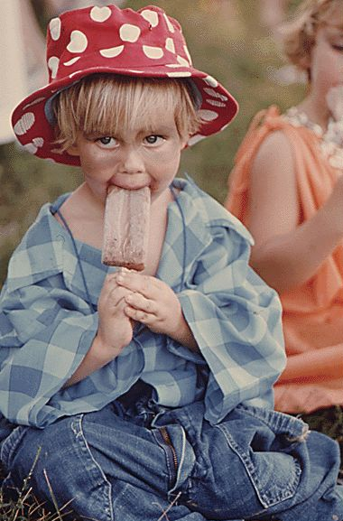 Participant in a kiddies' parade, an annual event held early in the evening during the summer in New Ulm, Minnesota. The youngsters and parents make all of their own costumes and "floats". The town is a county seat trading center of 13,000 in a farming area of South Central Minnesota. It was founded in 1854 by a German immigrant land company that encouraged kinsmen to emigrate from Europe. The arrival of manufacturing firms since 1950 has helped community growth.